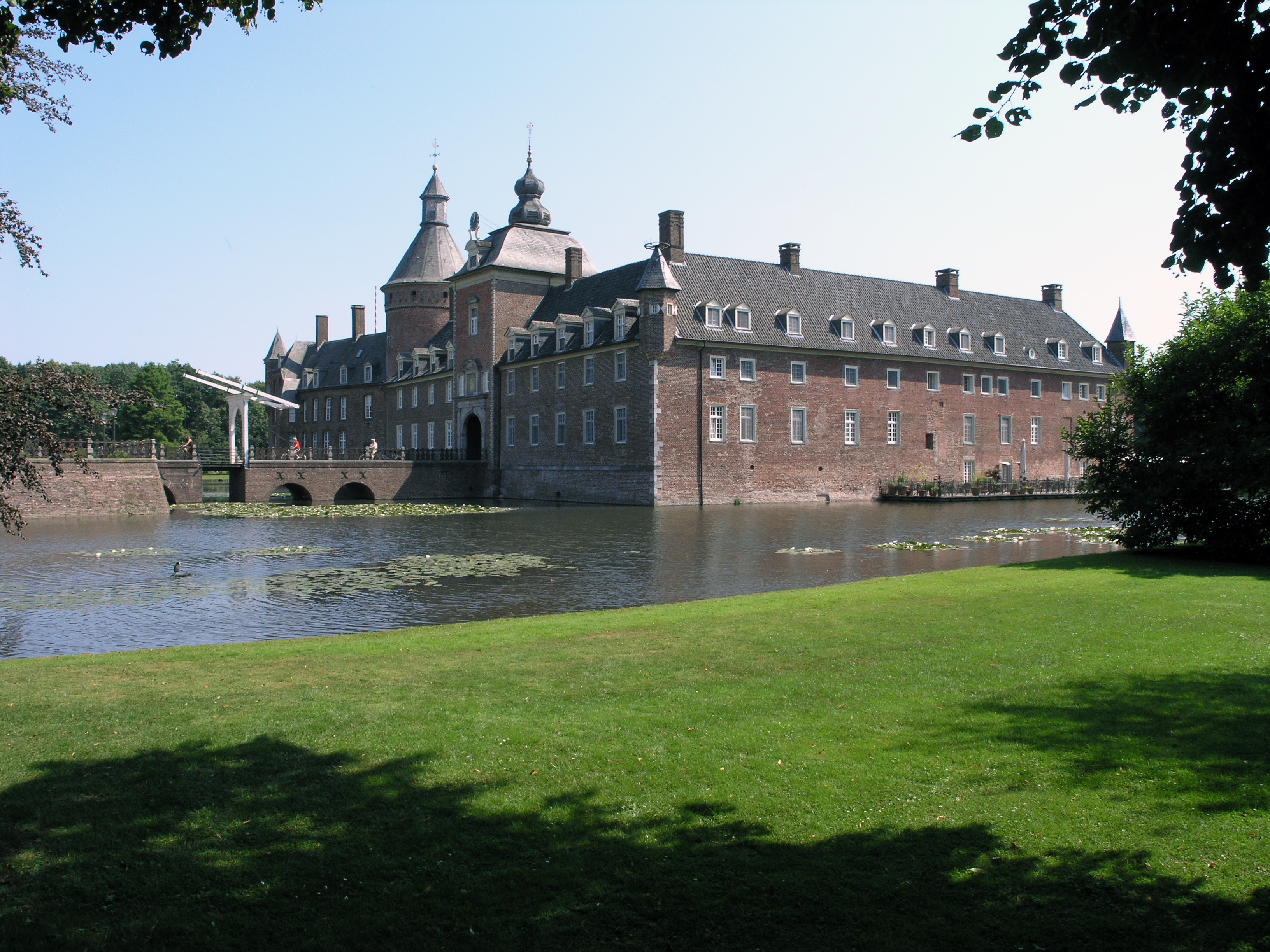 The Schloss these days also contains a restaurant, they added a modern looking seating area to the back of the hotel, luckily the bushes to the right can hide this area.Burg Anholt